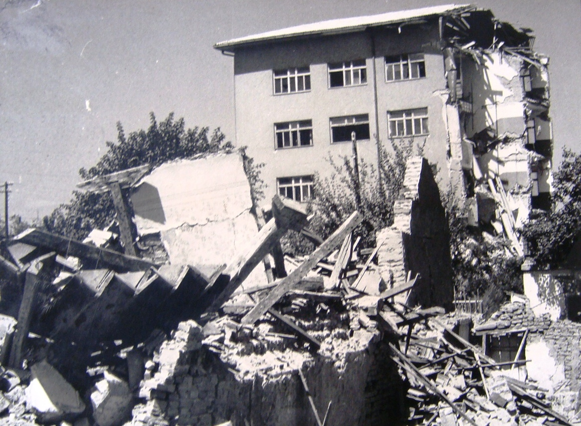 1963 Skopje earthquake: Gymnasium "Cvetan Dimov" after the earthquake This media file is produced by Wikipedian in Residence in Category:Wikipedian in Residence at DARM in 2016.